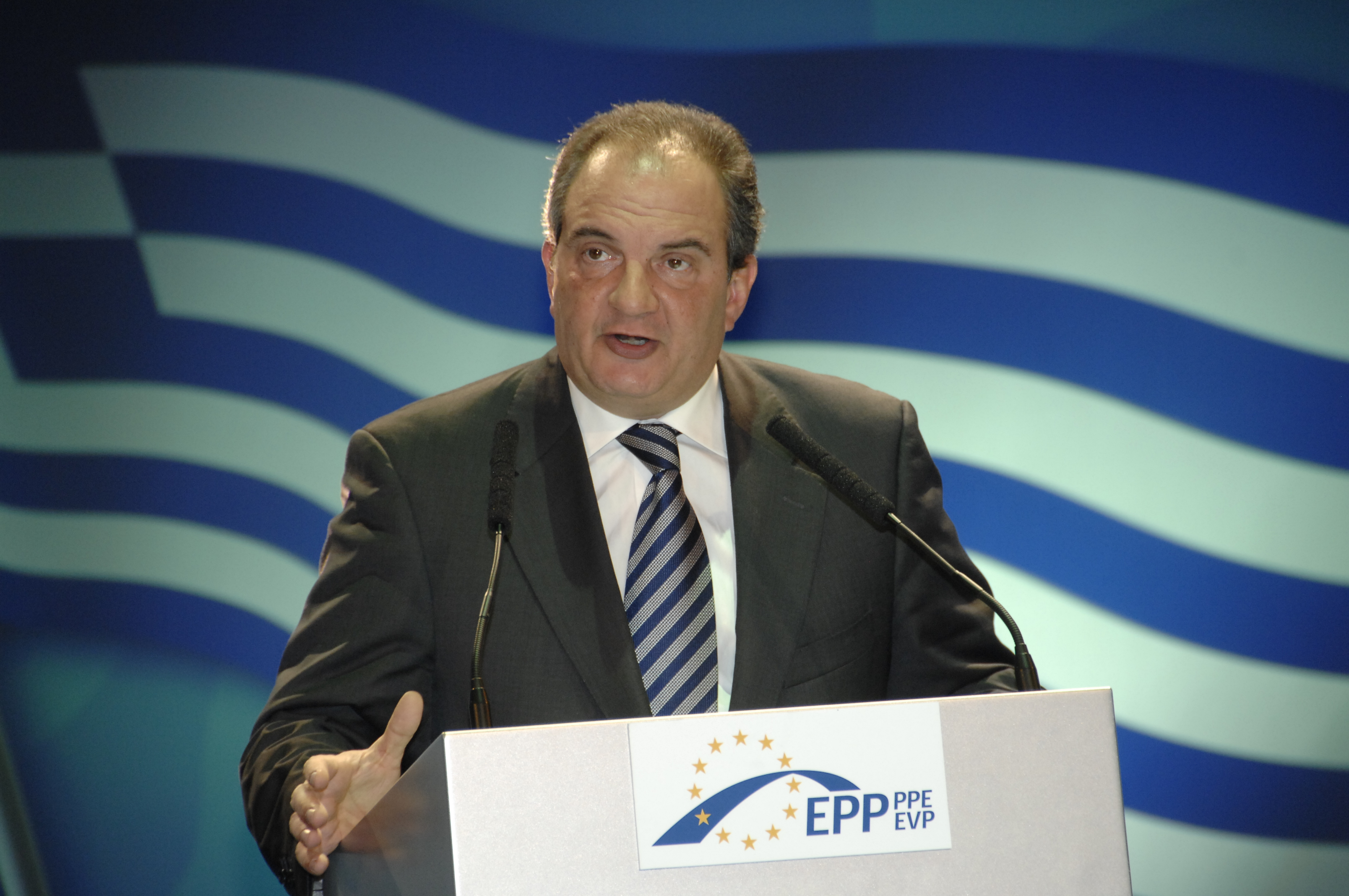 EPP Congress Warsaw